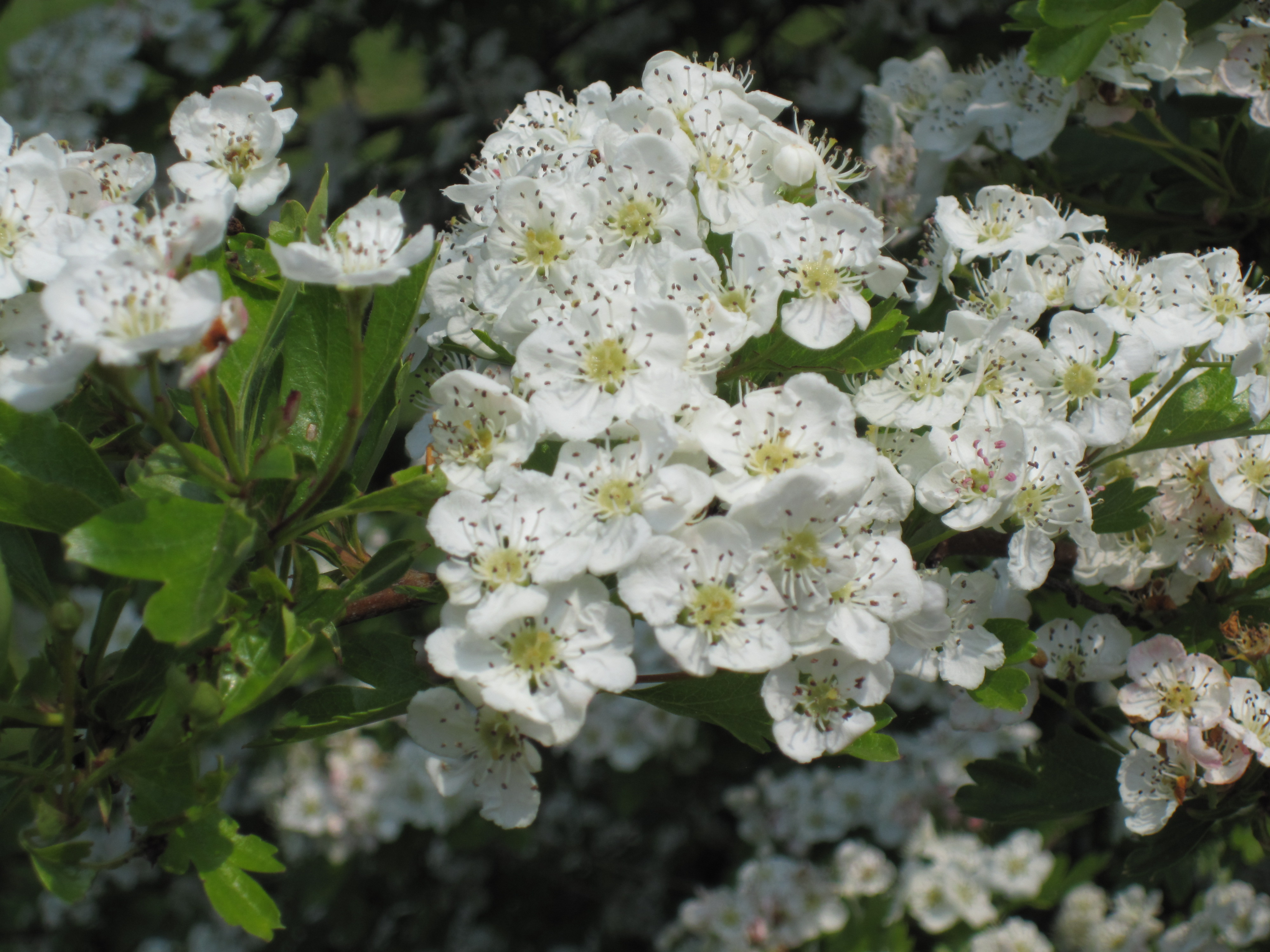 One of the many hawthorns on Duncan Down flowering in late spring.